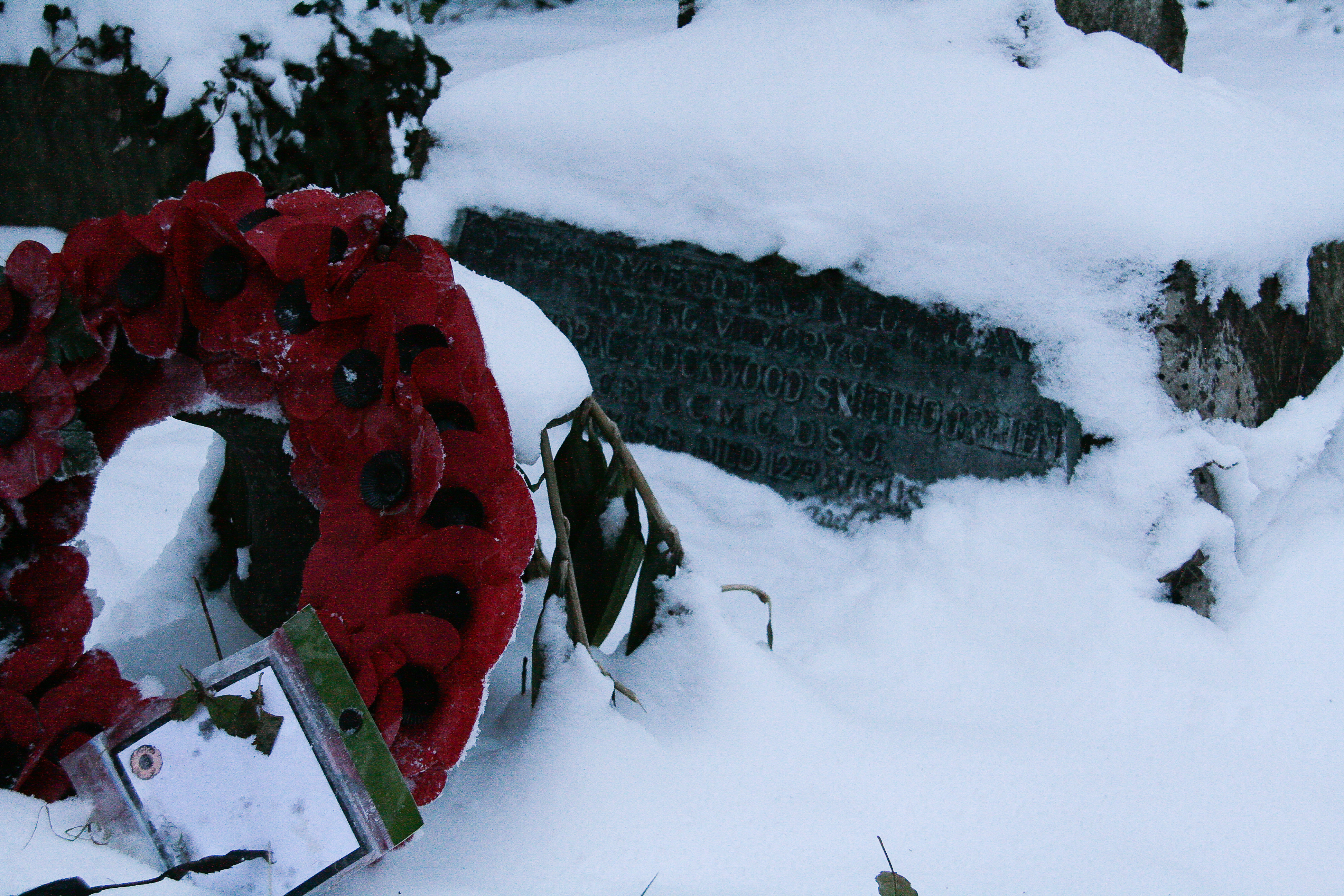 Grave of General Sir Horace Lockwood Smith-Dorrien, St Peter's Cemetery (detached), Berkhamsted. Inscription reads: "General Sir Horace Lockwood Smith-Dorrien GCB, GCM, DSO born 26 May 1858 died 12 Aug. 1930"